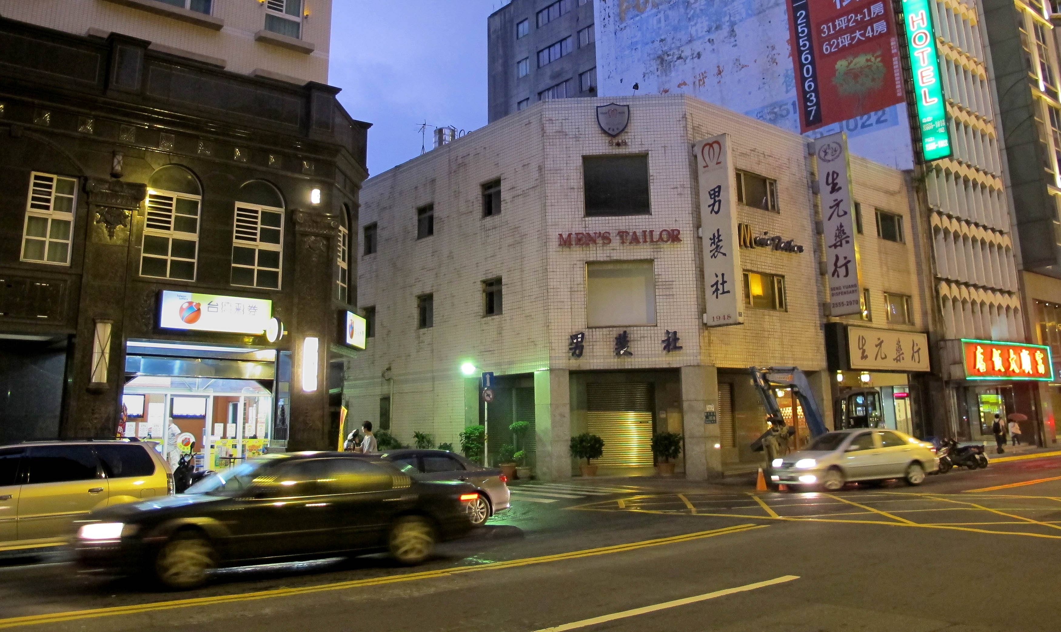 Men's Tailor & Seng Yuang Dispensary, Nanjing West Road, Datong District, Taipei City.